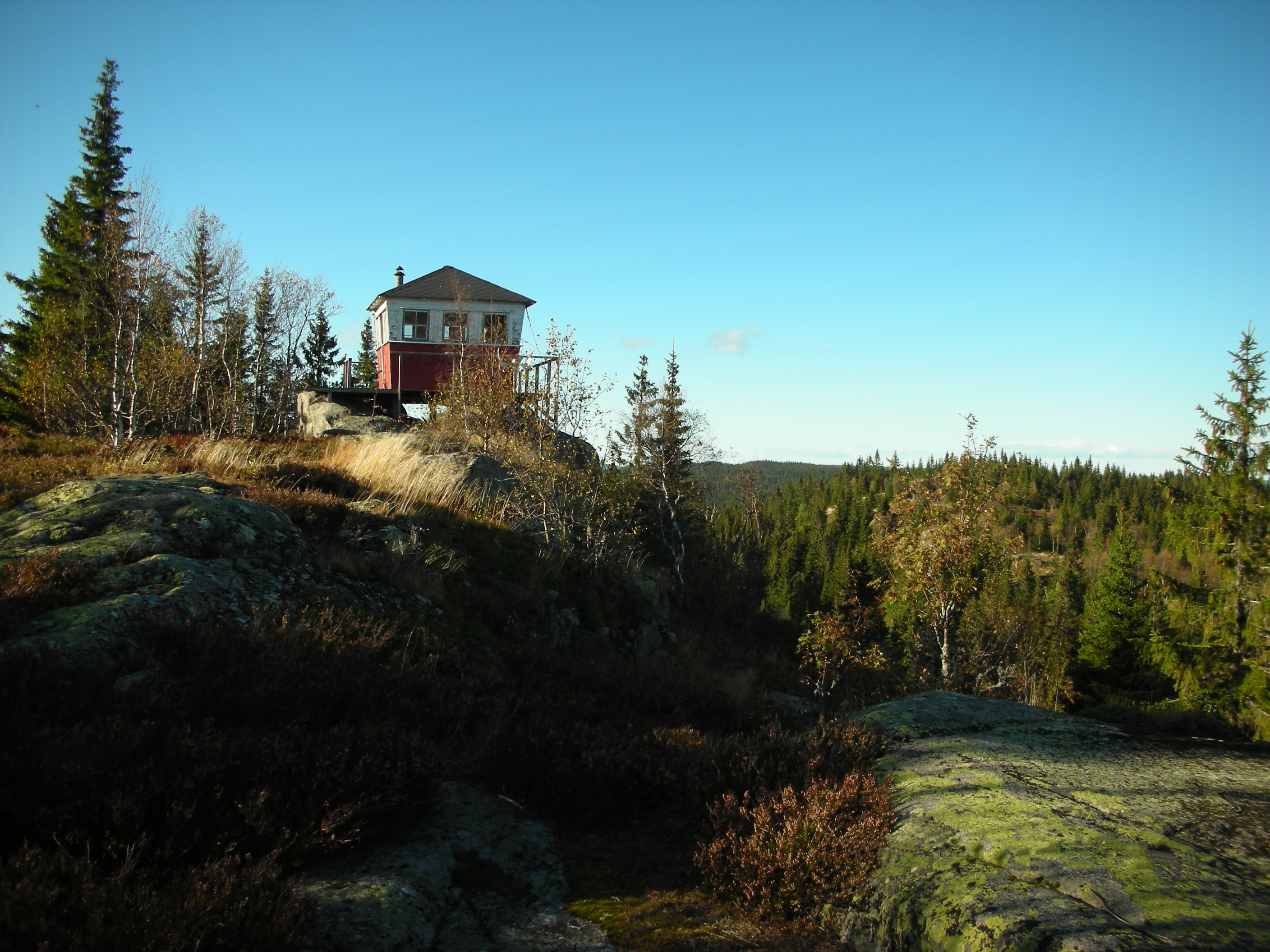 The highest mountain of Oslo, Kjerkeberget. This is the fire cabin at the summit.